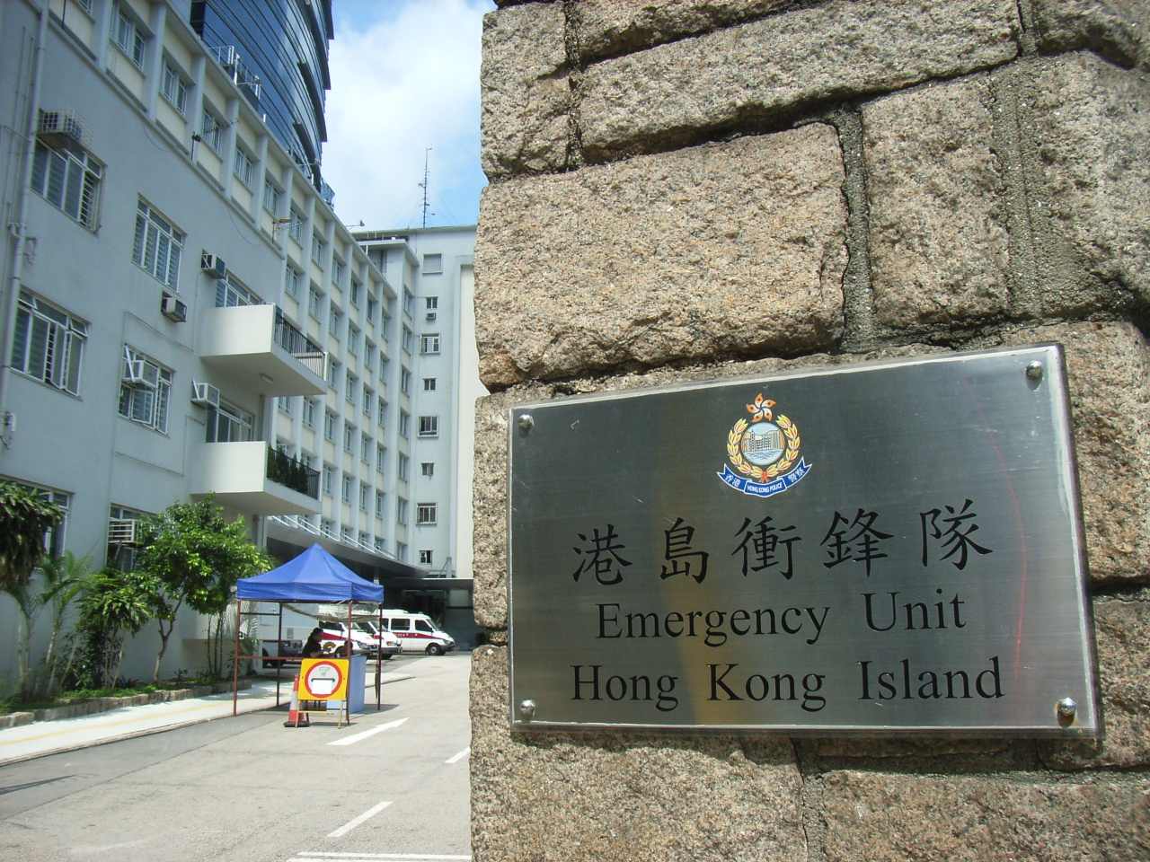 Hong Kong Island Regional Headquarters, 軍器廠街 Arsenal Street, Wan Chai, Hong Kong photo by QWB656